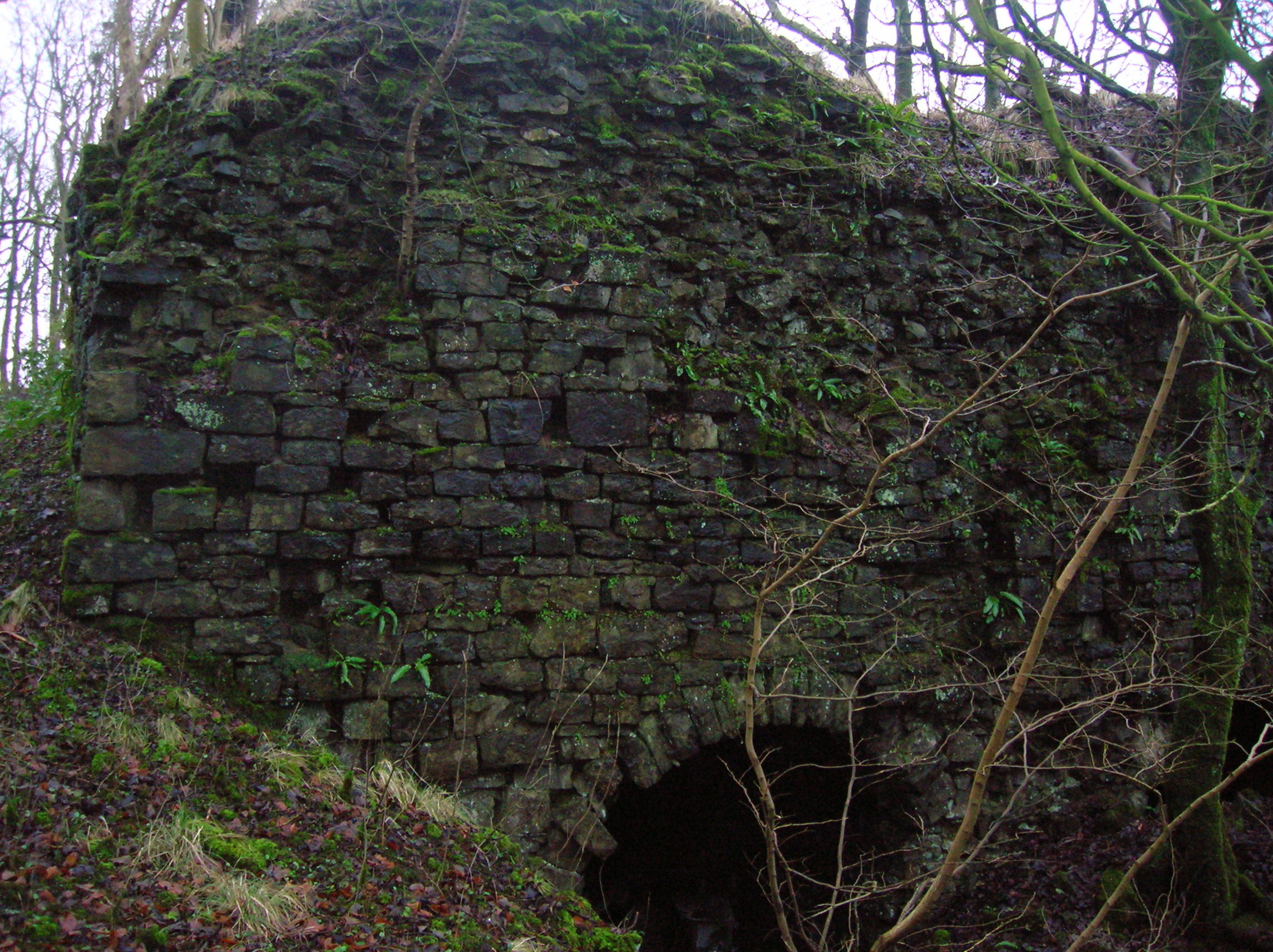 Detail of the limekiln and wall, Broadstone, North Ayrshire, Scotland